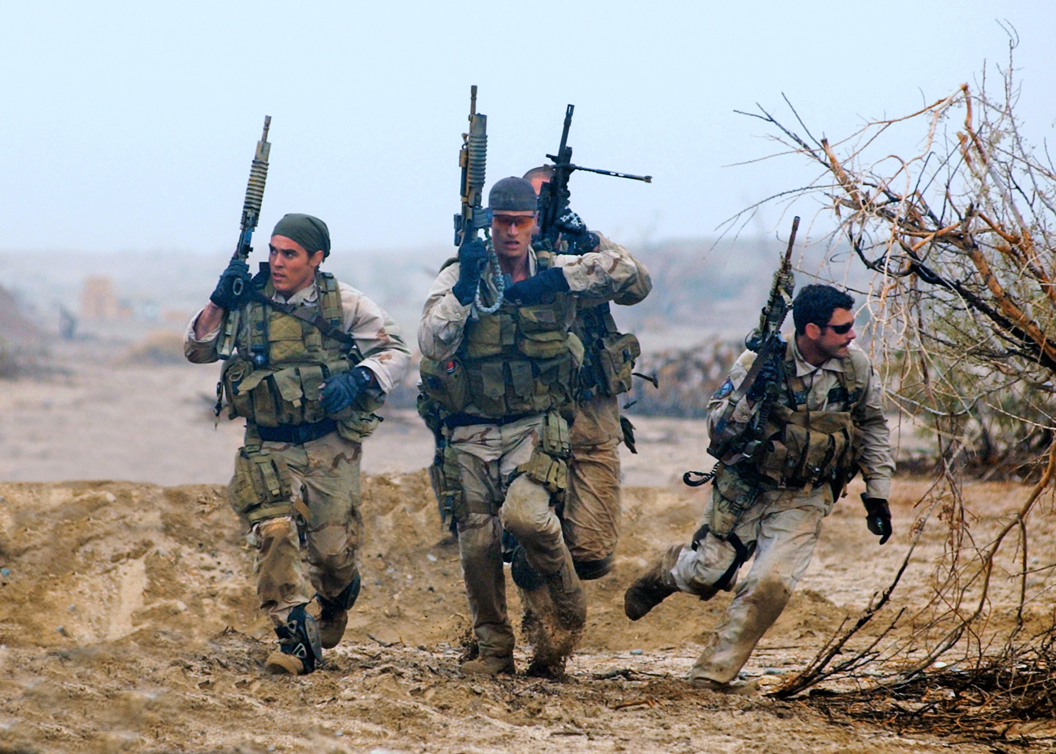 040222-N-3953L-349 Remote Training Facility (February 22, 2004) -- Members of a SEAL Team practice desert training exercises in preparation for real world scenarios. Navy SEALs are maritime special operations forces who strike from the SEa, Air and Land. They operate in small numbers, infiltrating their objective areas by fixed-wing aircraft, helicopters, navy surface ships, combatant craft and submarines. SEALs have the ability to conduct a variety of high-risk missions- unconventional warfare, direct action, special reconnaissance, combat search and rescue, diversionary attacks and precision strikes- all in a clandestine fashion..Official U.S. Navy photo by Photographer's Mate 2nd Class Eric S. Logsdon, Naval Special Warfare Command Public Affairs Office. (RELEASED)